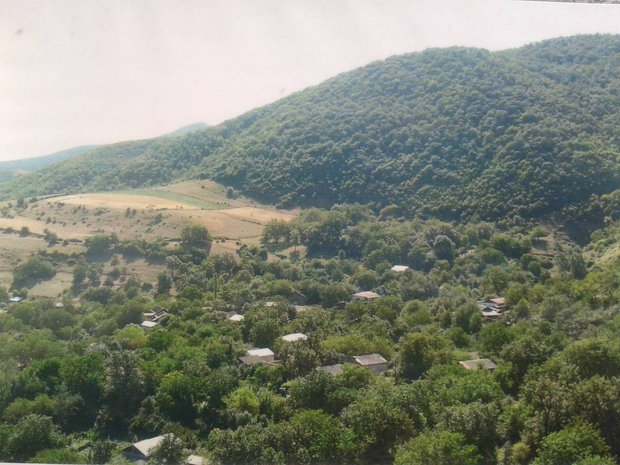 Panorama view of Tsakuri village, Hadrut region